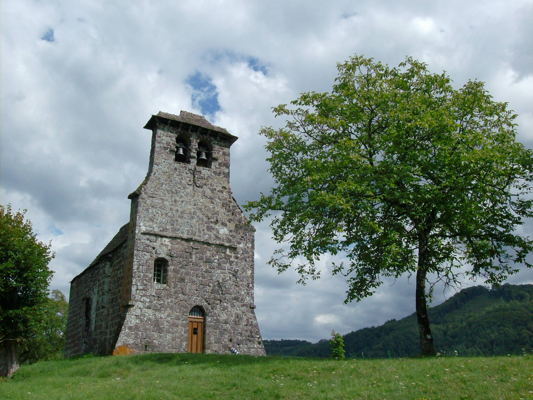 Church of Laussac (Commune/Municipality Thérondels, Department Aveyron, France).